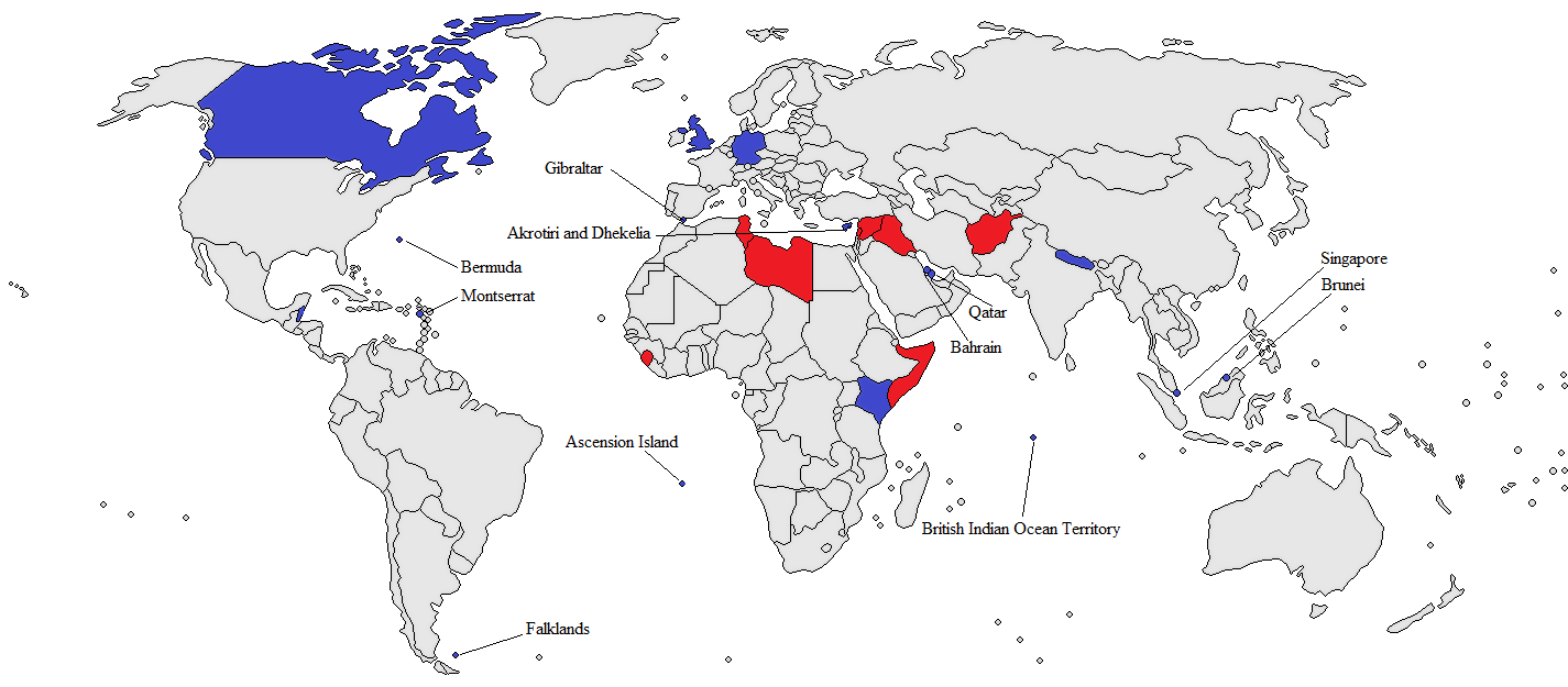 A map showing all United Kingdom overseas military installations (Blue) and locally raised units of her overseas territories (blue). Also shows all military interventions undertook since the year 2000 (red).